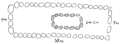 Megalithic tomb Hanstedt II 1